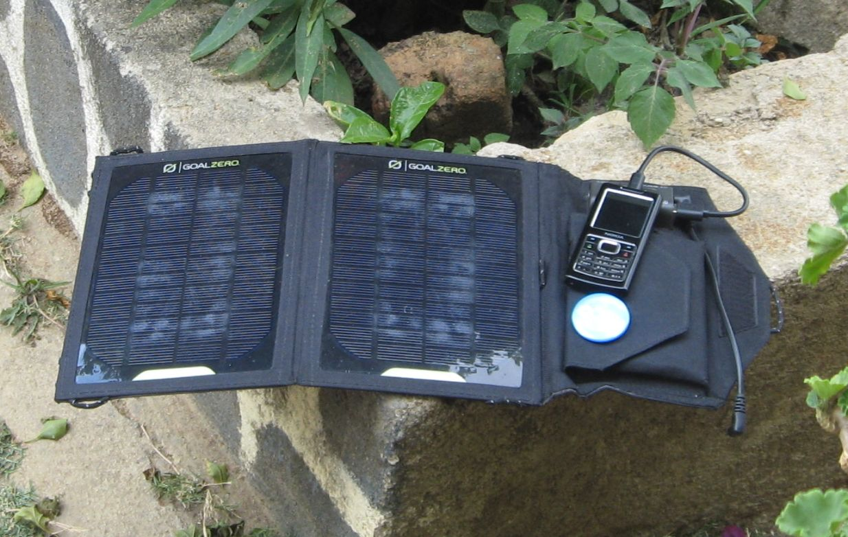 Golazero Nomad7 solar panel and mobile phone